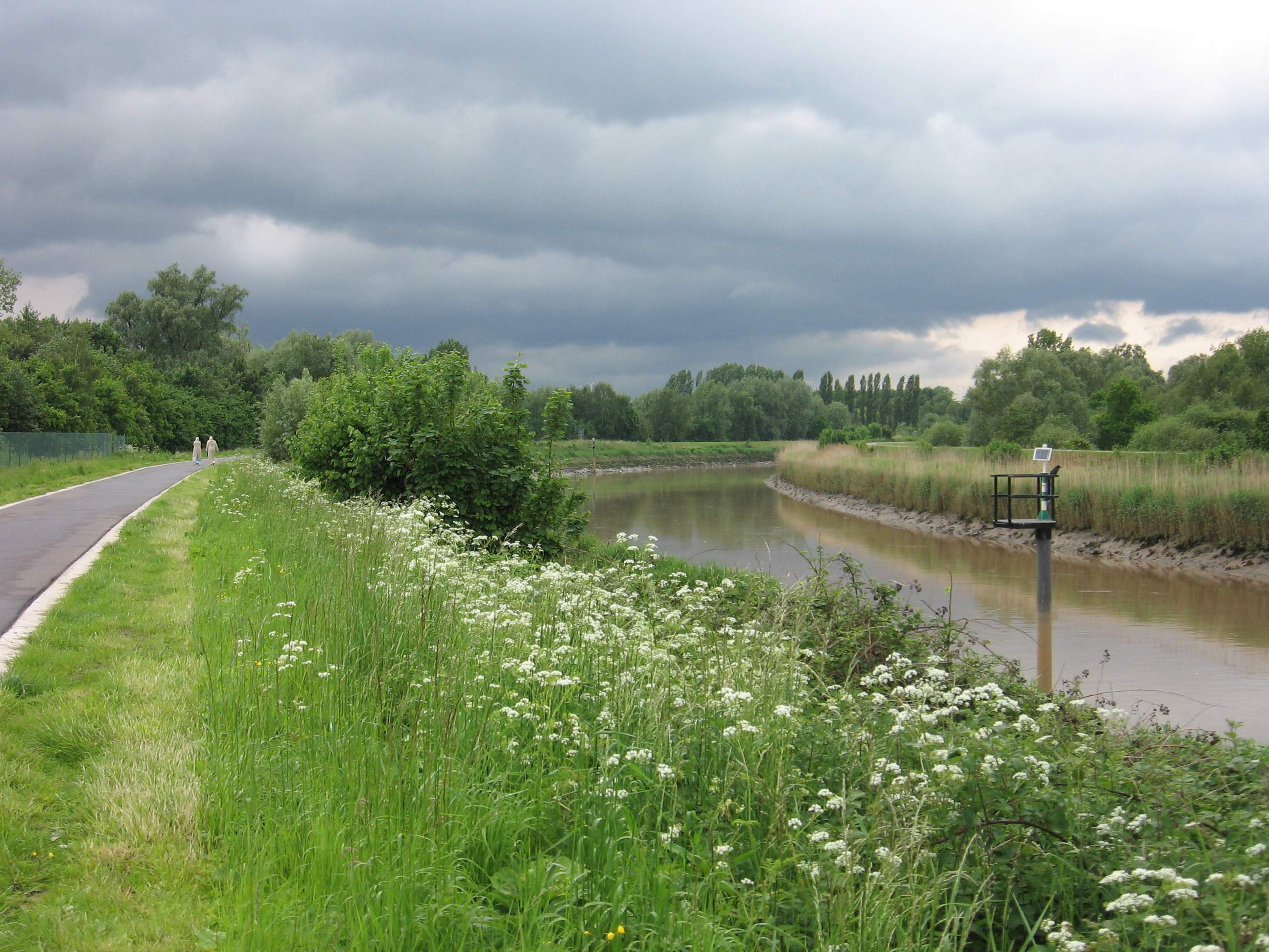 Dijle